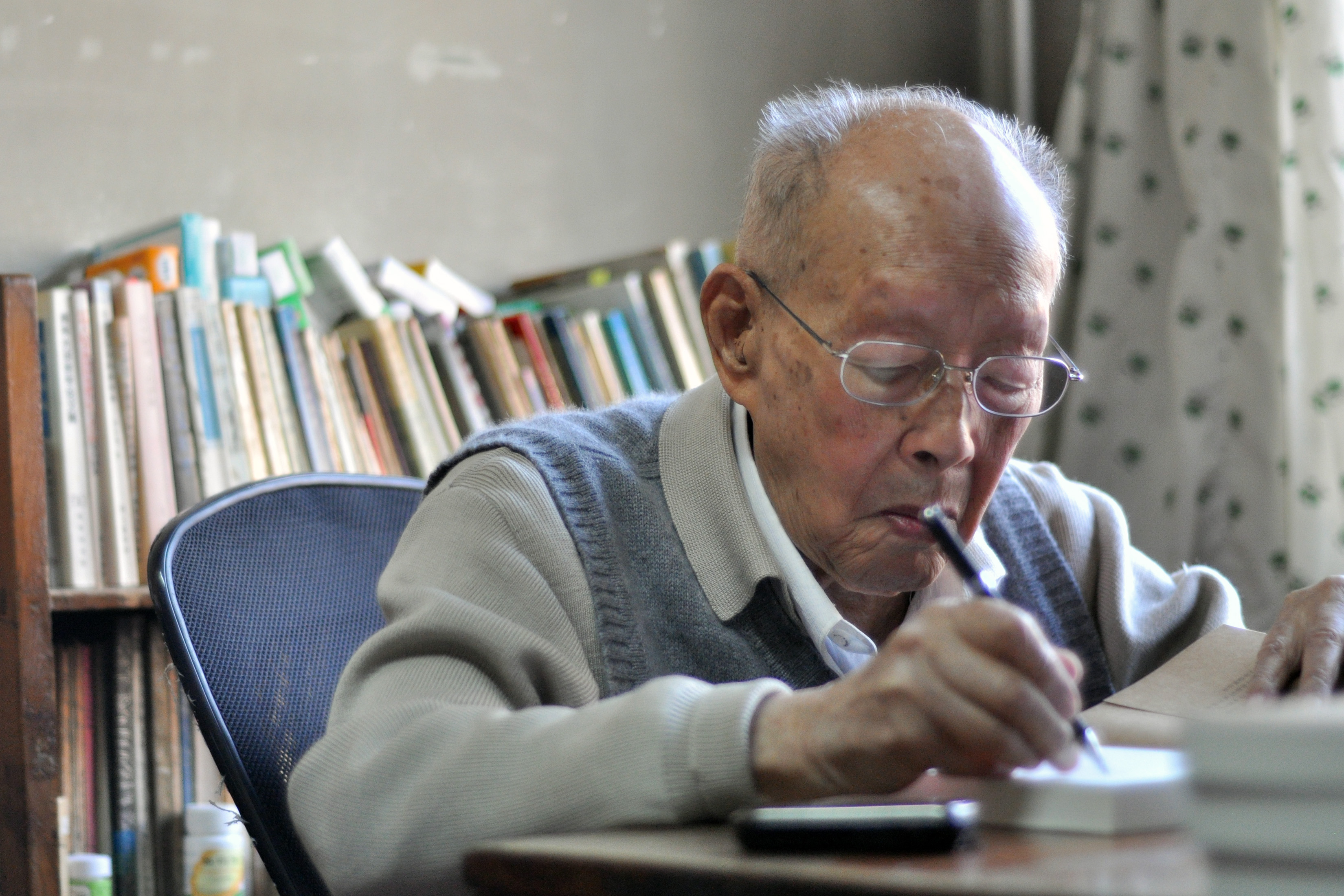 Zhou Youguang (born 13 January 1906) is a Chinese linguist who is often credited as the "father of Hanyu Pinyin".